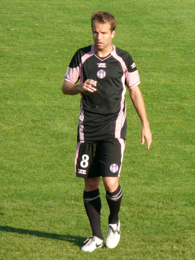 French soccer player Étienne Didot.